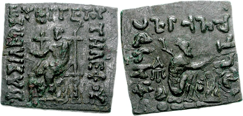 Coin of the Indo-Graeco king Telephos